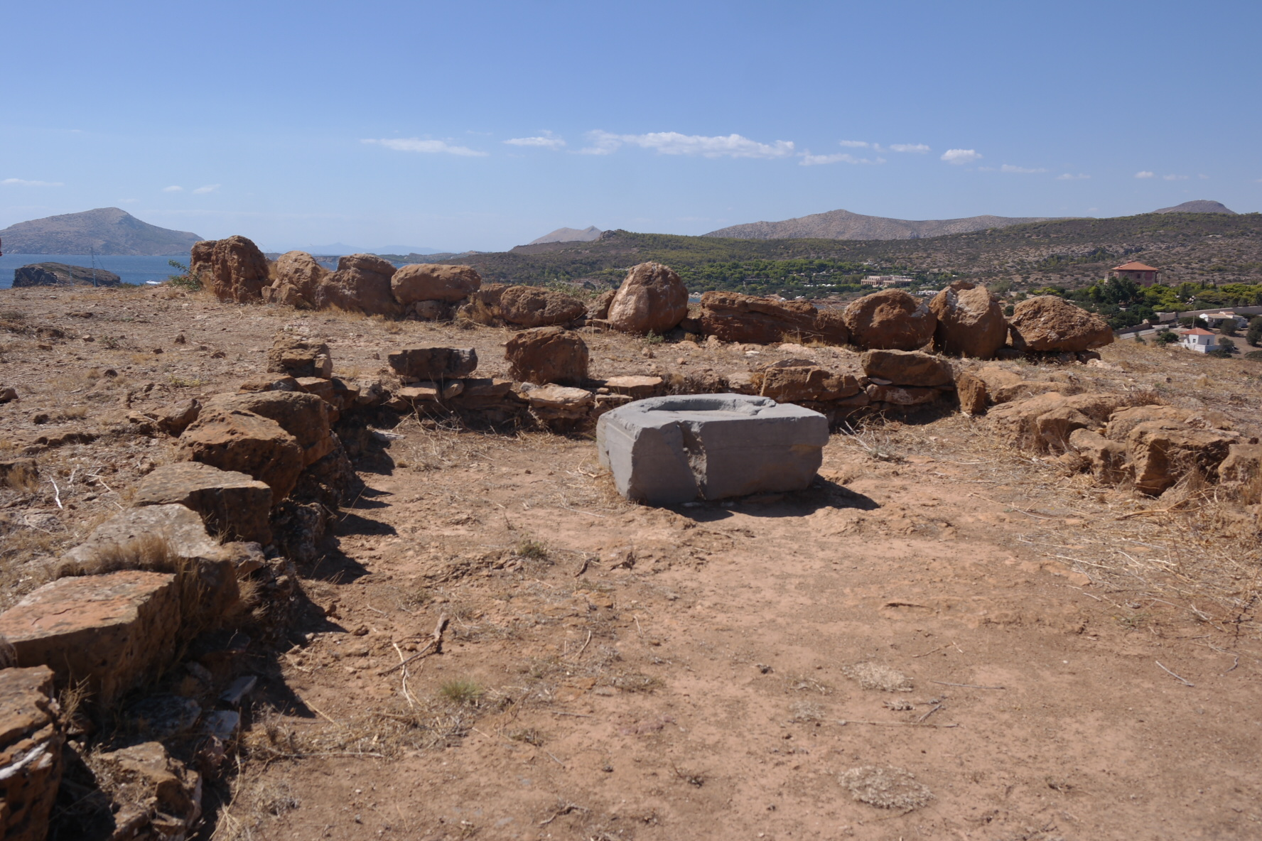 The temple of Athena was built in 470 BCE to replace an earlier building which was destroyed early in the 6th century BCE.The temenos of Athena Sounia is built on a low hill in Sounion, a short distance from the better preserved and more visible Temple of Poseidon. Very little of the temple of Athena or the sanctuary remains on site today besides traces of foundations and bases of columns and statue.